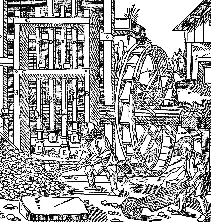 German metal miners in the 16th century